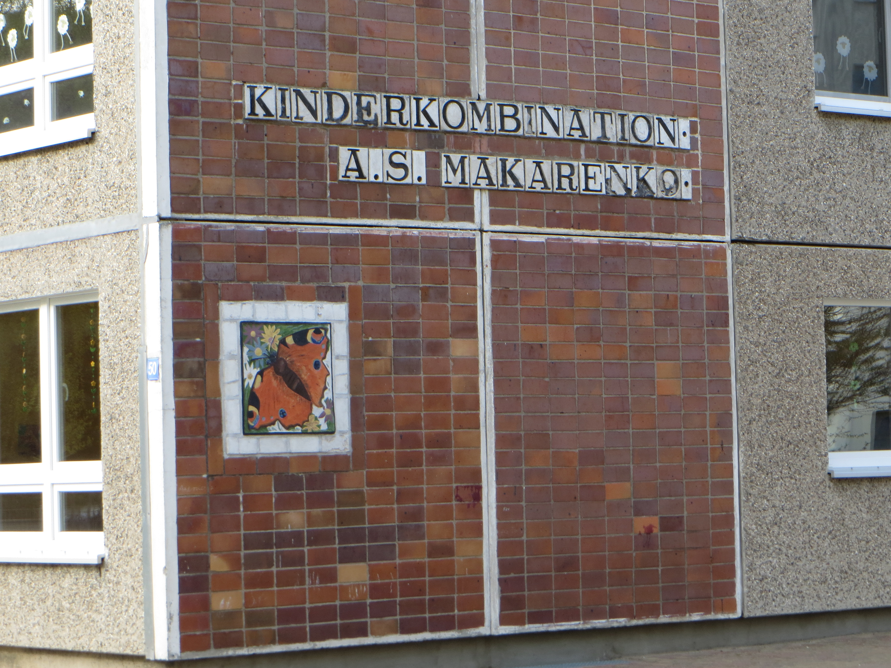 Kinderkombination A S Makarenko Greifswald